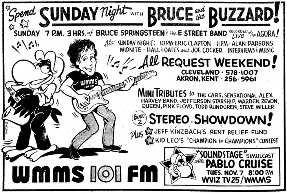 Print ad for Bruce Springsteen concert and various other programming scheduled to air on WMMS/Cleveland